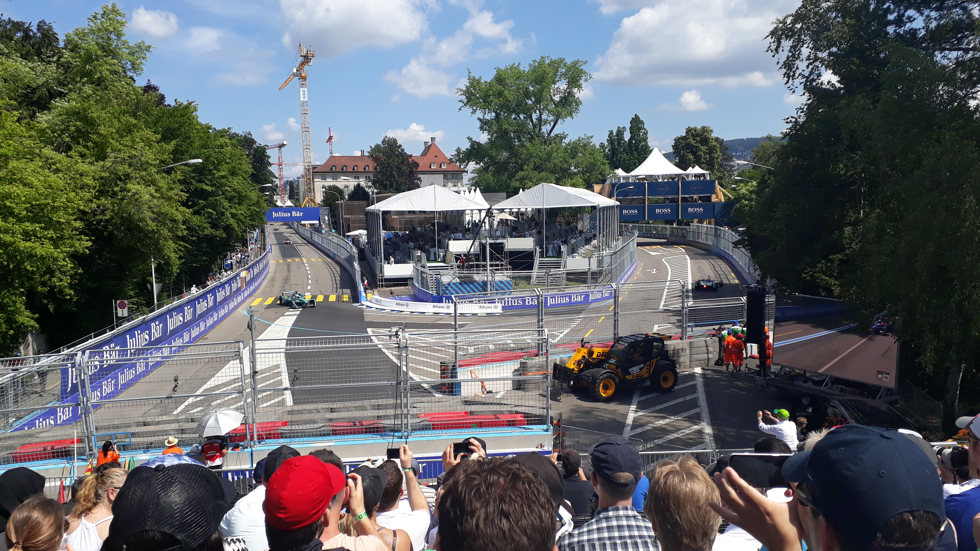 View from the mainstands of the Zürich Street Circuit at the Mythenquai hairpin